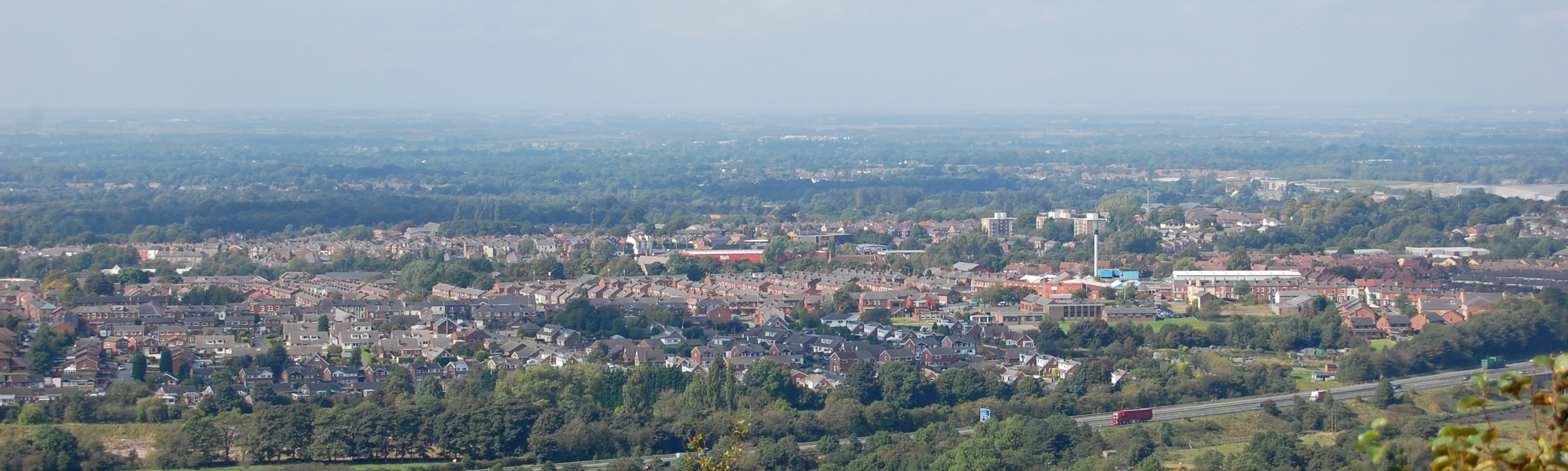 View over Chorley from The Nab.